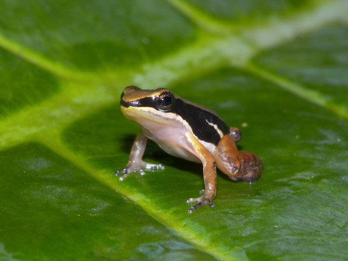 Colostethus pratti